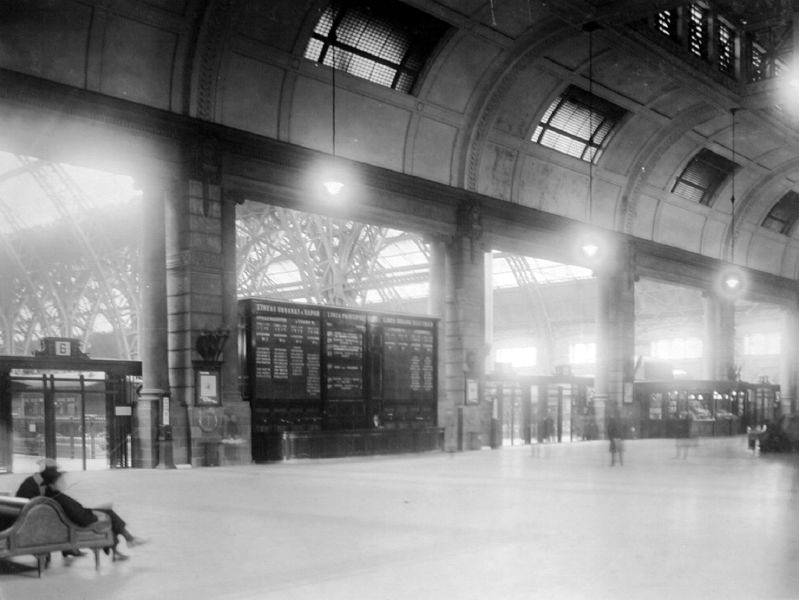 Retiro station Great Hall - Historical photos - 1915